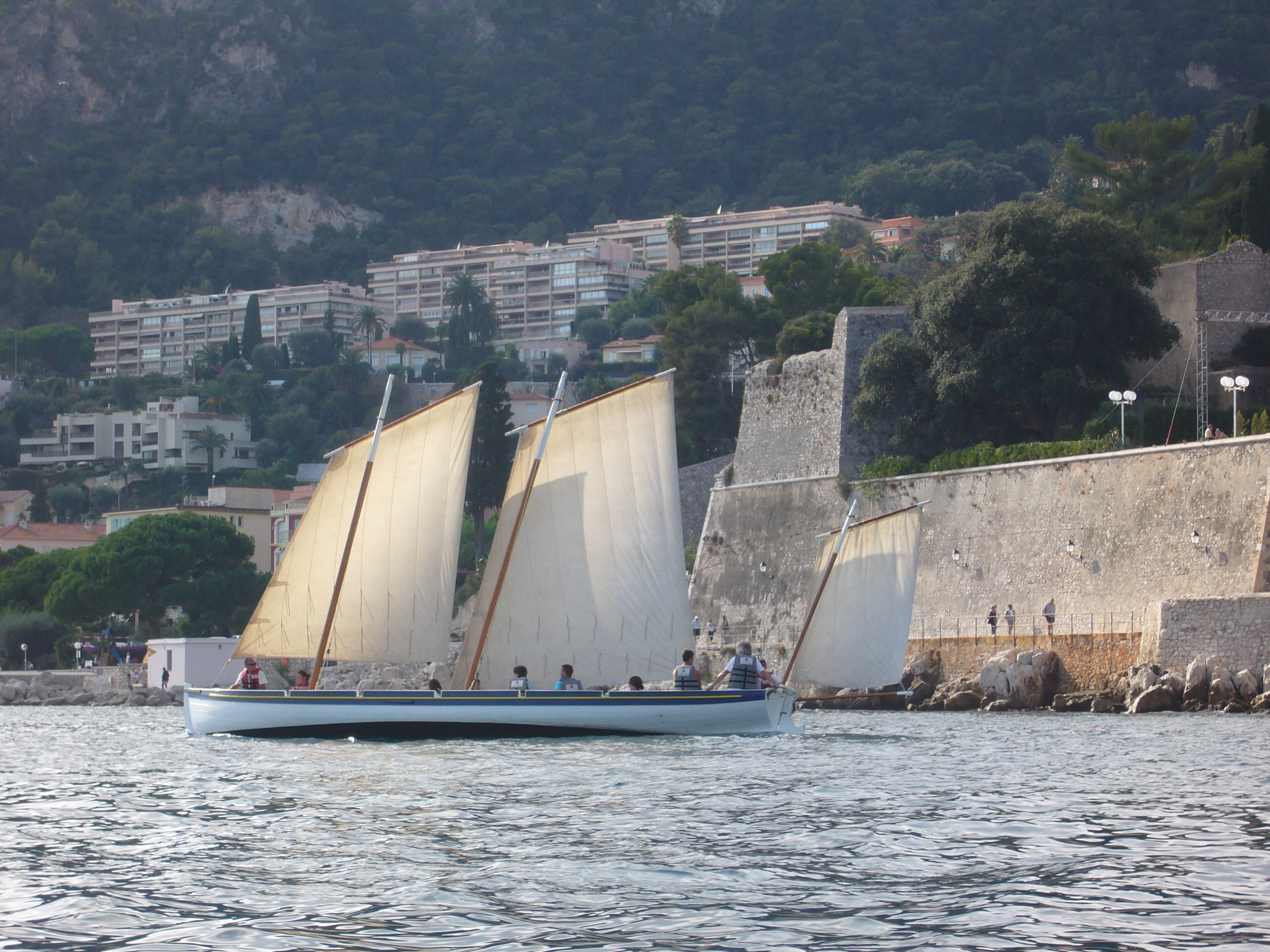 Laïssa Ana, Bantry Bay gig, Villefranche-sur-Mer, France